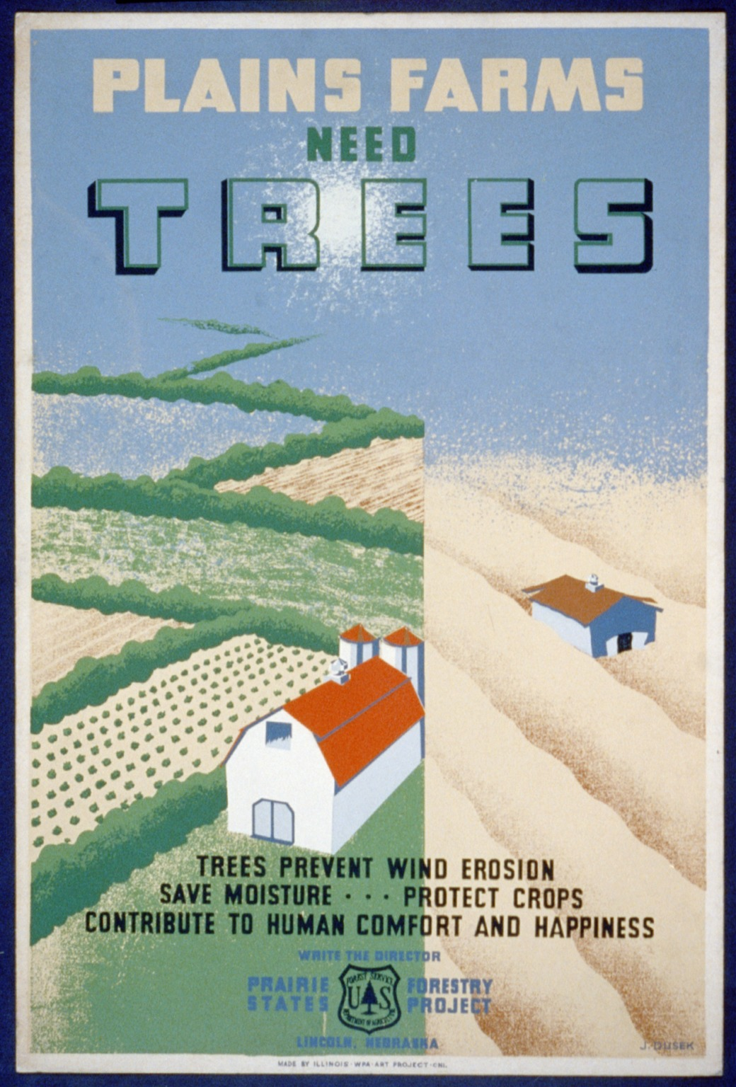 Title: Plains farms need trees Abstract: Poster encouraging planting trees as a method of soil conservation. Physical description: 1 print on board (poster) : silkscreen, color. Notes: Work Projects Administration Poster Collection (Library of Congress).; Write the director, Prairie States Forestry Project, Lincoln, Nebraska.; J. Dusek.; Date stamped on verso: Feb 10 1940.